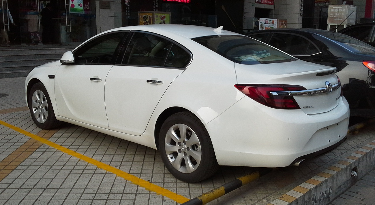 Buick Regal CN II facelift photographed in Shanghai, China.